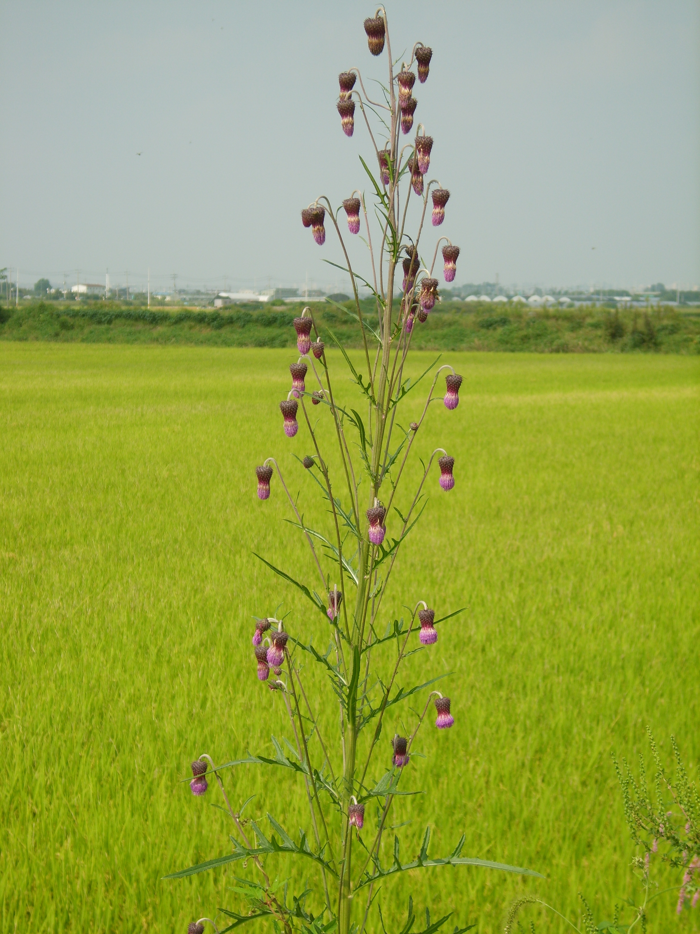 Cirsium pendulum